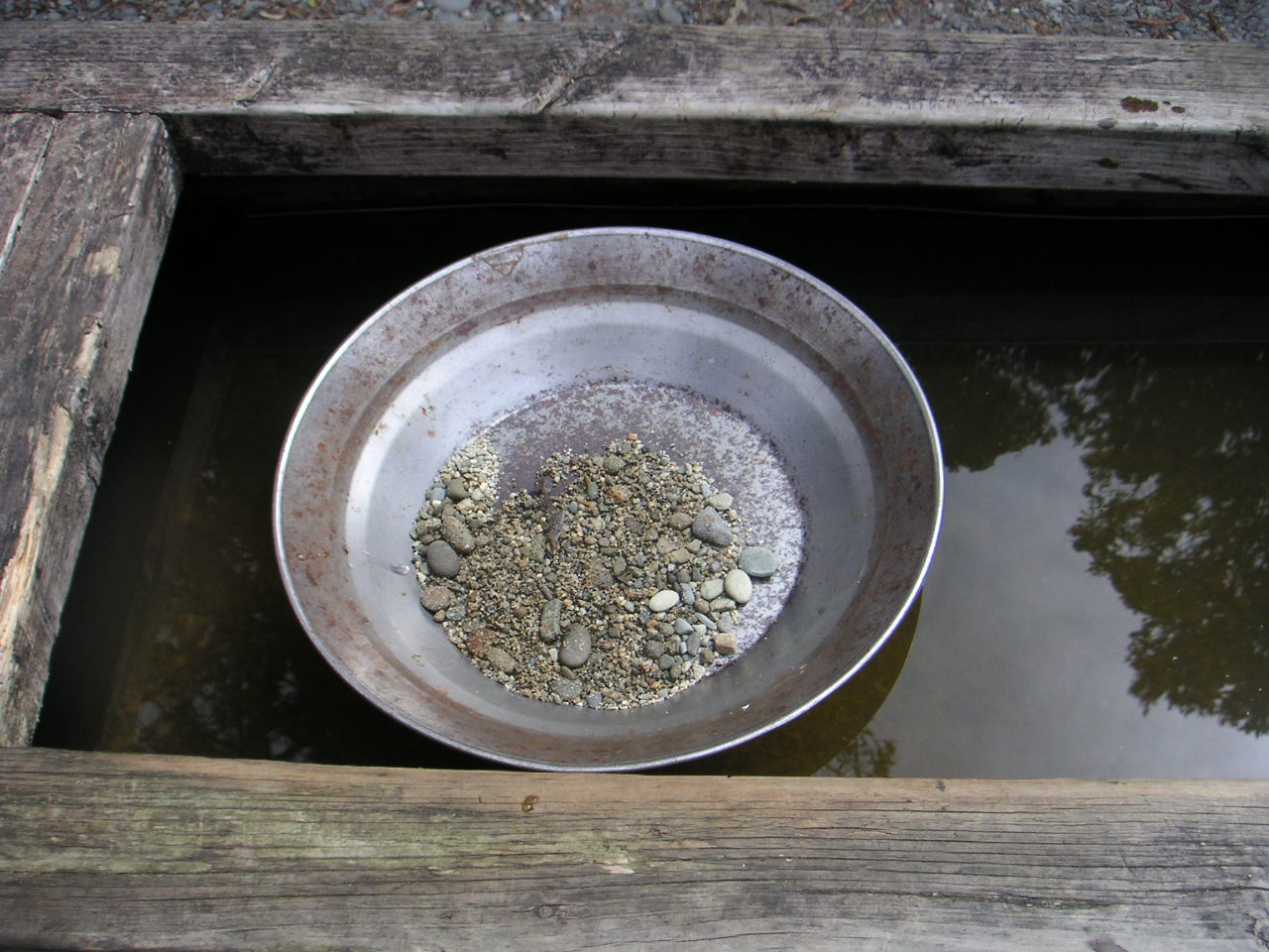 Gold Pan. In the 1800s, the 'Wild' West Coast of New Zealand was a gold miner's boomtown.